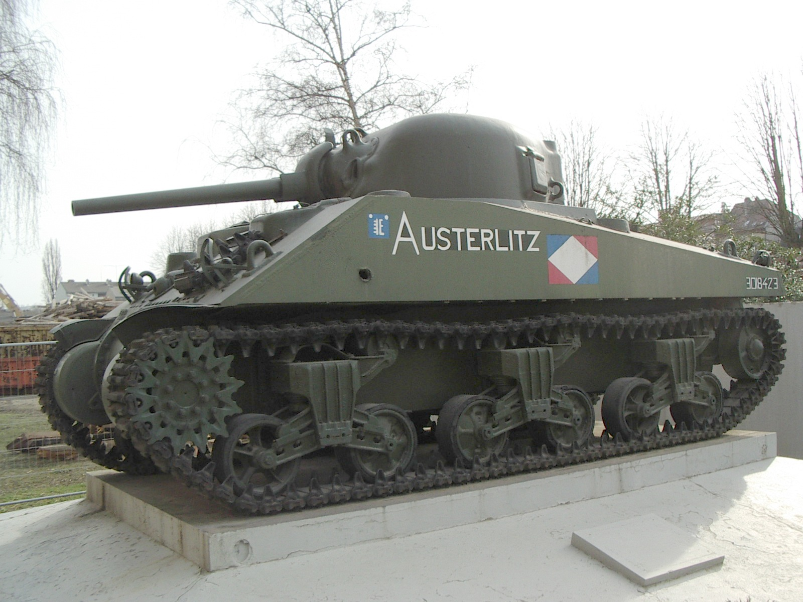 The Sherman M4A3 Austerlitz of the 2nd RCA (1st french army) which took part in the liberation of Mulhouse and is still on display at the very place where it was hit by a “Panzerfaust” on November 23rd, 1944. Two members of its crew, including lieutenant Jean de Loisy [1], were killed during this action.